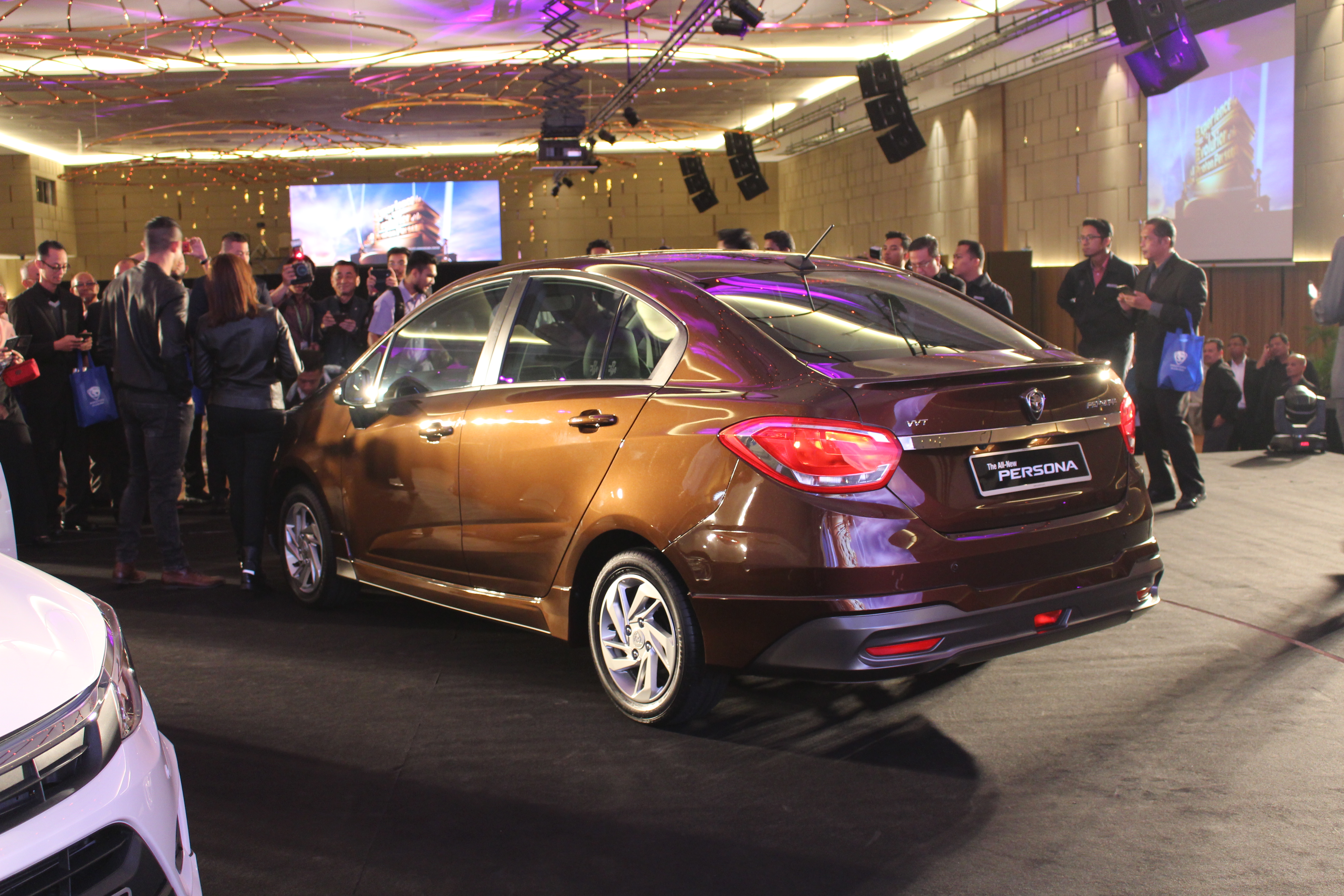 This metallic bronze/ brown colour (Carnelian Brown) is the 'hero colour' of the new BH Persona.